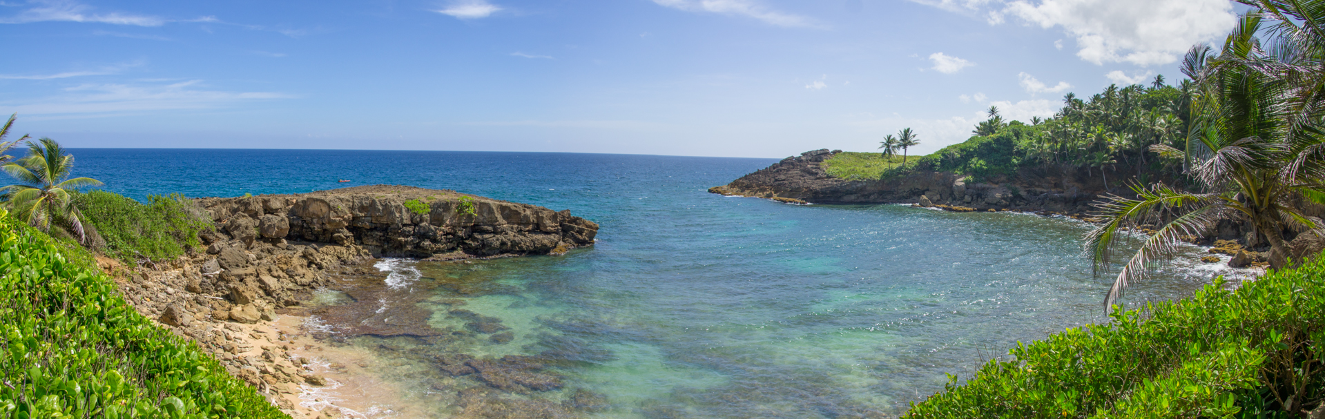 Beach in Sabana, Vega Alta, Puerto Rico